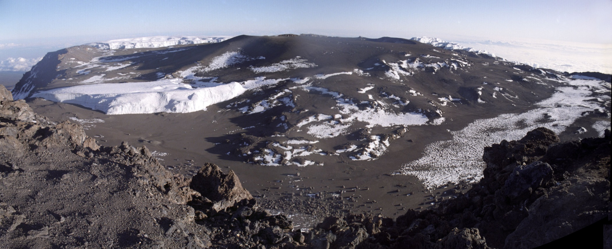 Mountain "Kilimanjaro", Caldera